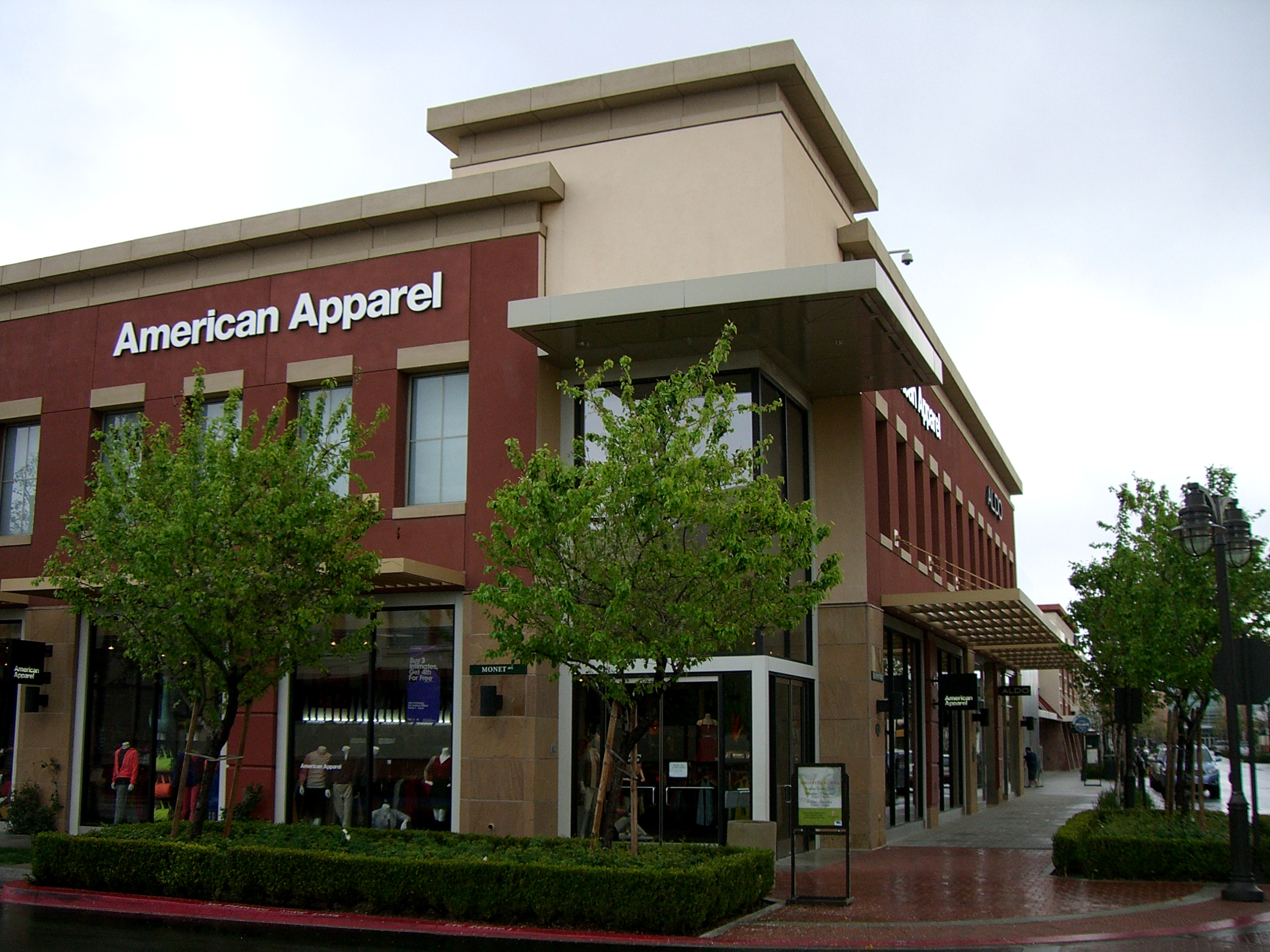 American Apparel store at Victoria Gardens, Rancho Cucamonga, California